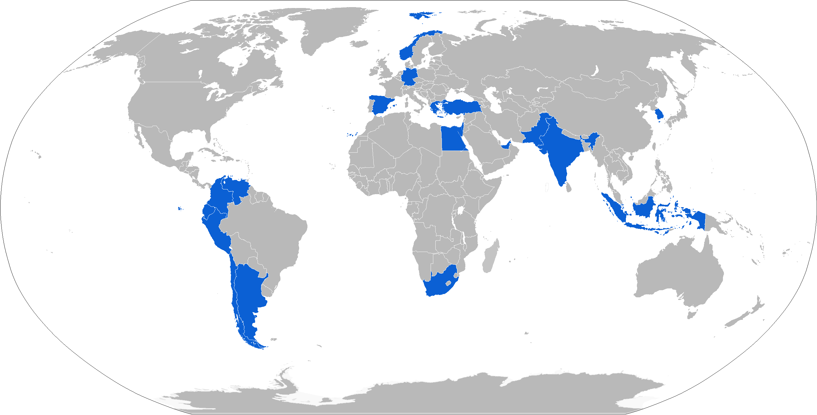 Map with DM2A4 operators in blue